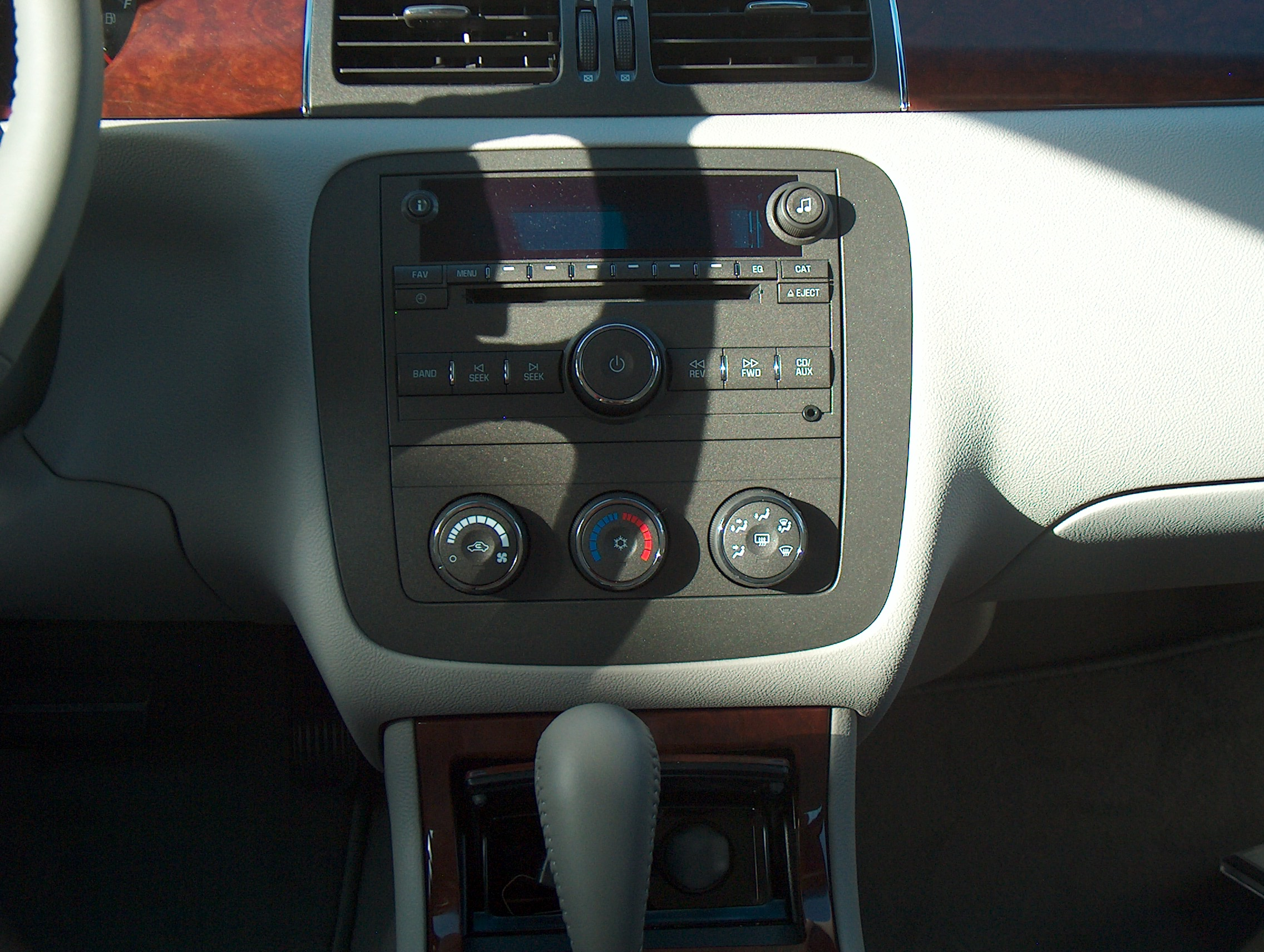 One of my three dozen photos I took for our 2008 Buick Lucerne during the winter sunshine